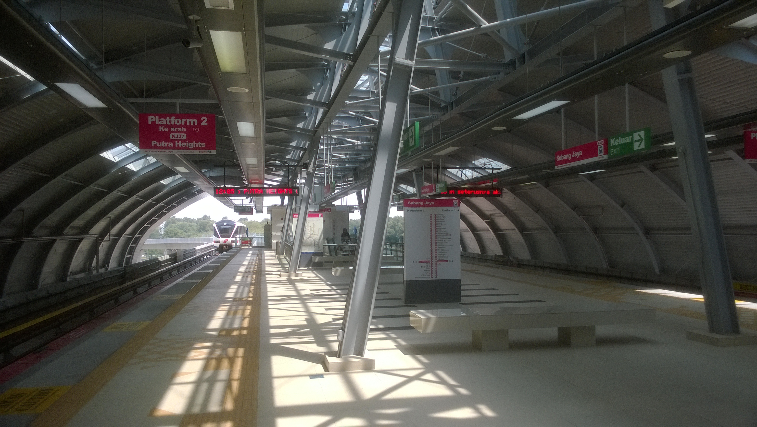 The platform area of Kelana Jaya Line in Subang Jaya station.